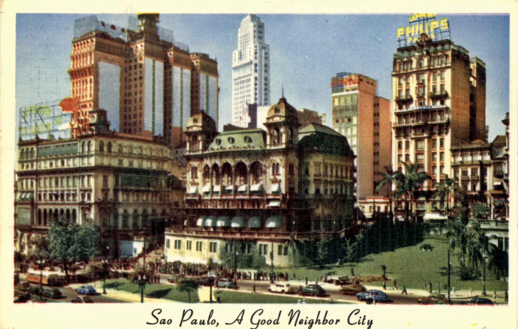 Postal Palacetes Prates